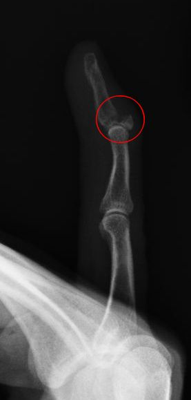 X-Ray of right 5th finger showing an avulsion fracture